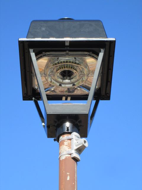 devolvee